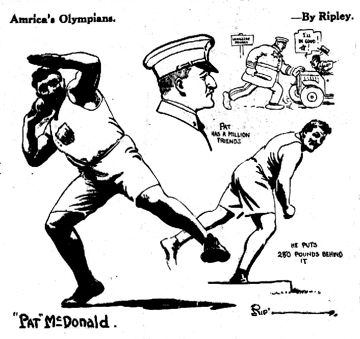 Cartoon by Robert Ripley, published in 1920. Olympian Pat McDonald.